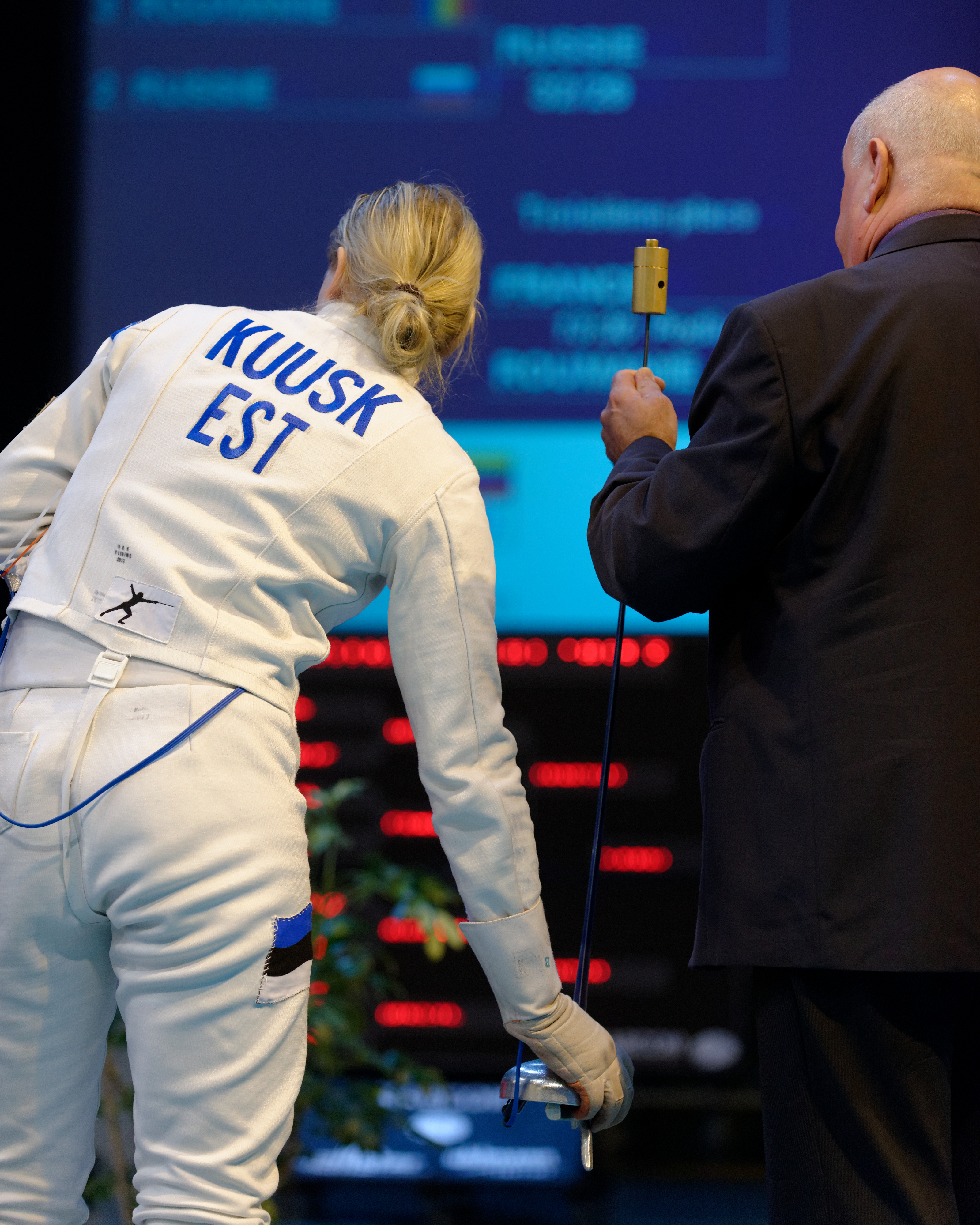 The referee checks the weapon of Kristina Kuusk from Estonia. Match against Italy for the 7th place in the team event of the Challenge international de Saint-Maur 2013, a women's épée World Cup tournament.